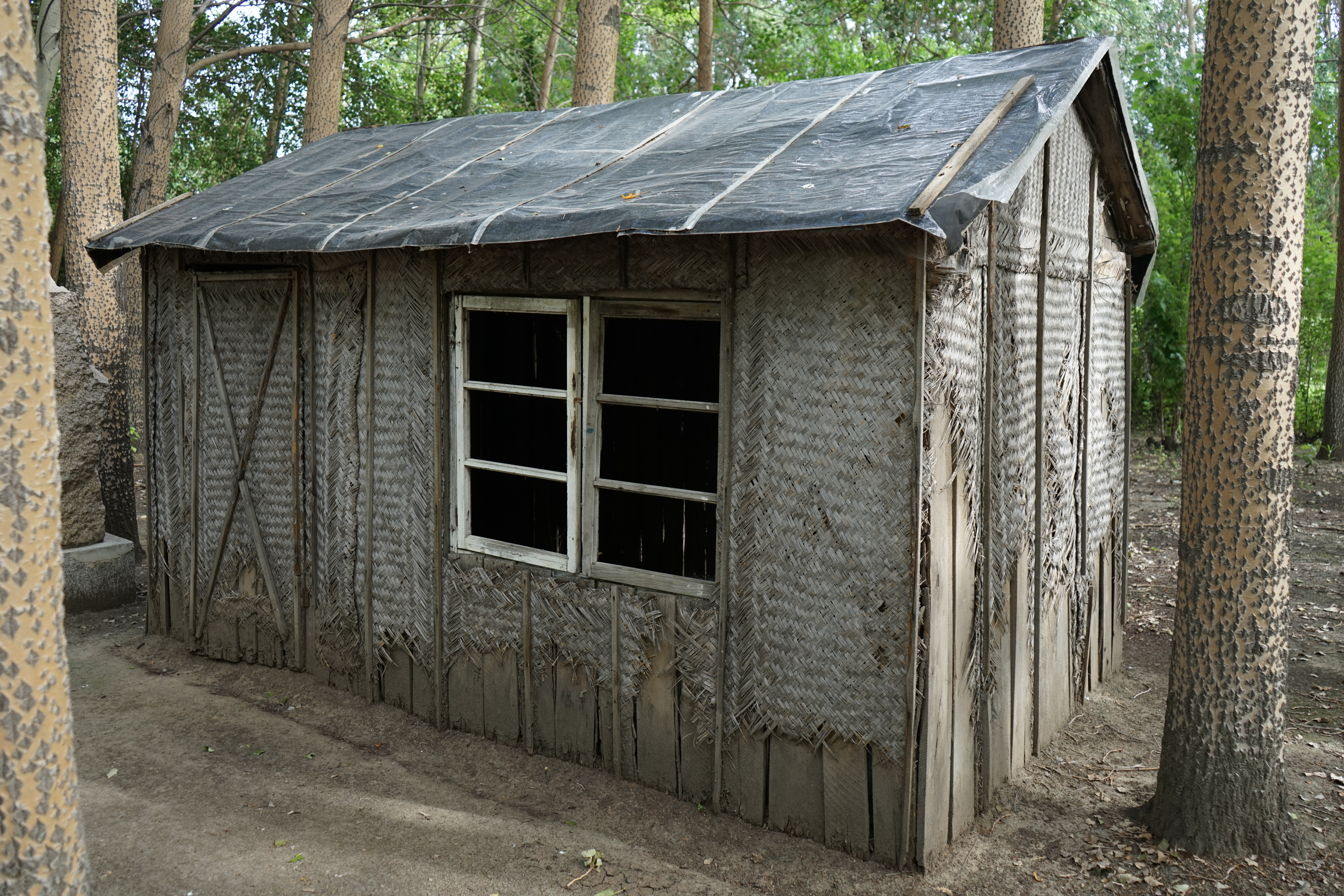 Gate-keepers room, Well Sa-55 Site. The room was built by broken mats and wooden sticks.